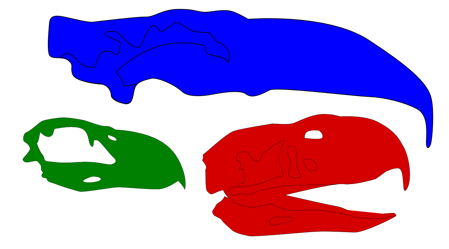 comparison of the skulls of: green: Procariama, red: Phorusrhacos, blue: Kelenken